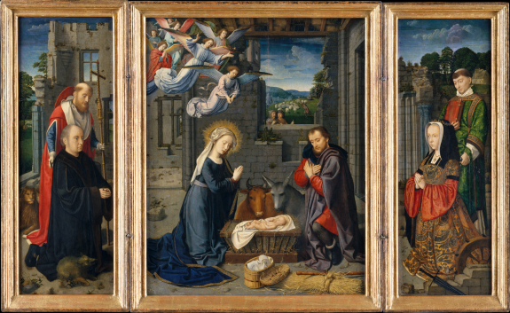 (Removed after reusableart request.)